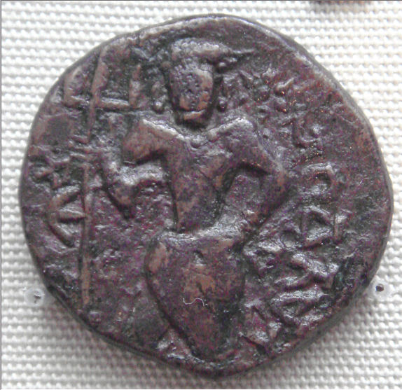 Shiva with trident Kuninda 2nd century。 Own photograph, taken at the British Museum